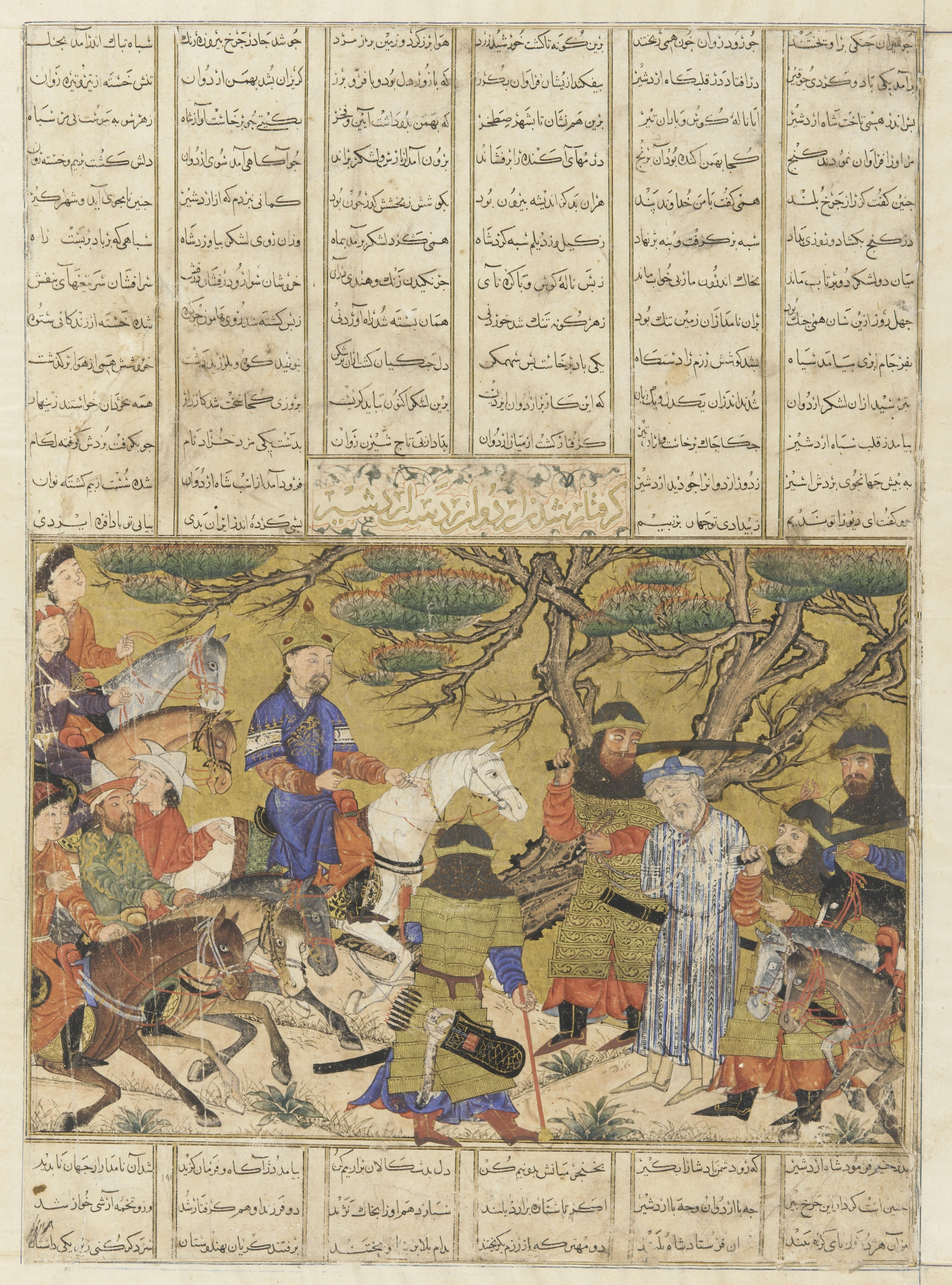 Ardashir Captures Ardava, from the Il-Khanid Dynasty, circa 1330-1340 AD, housed in the Freer Gallery of Art, Smithsonian, Washington D.C. Demotte Shahname, Folio 181, verso